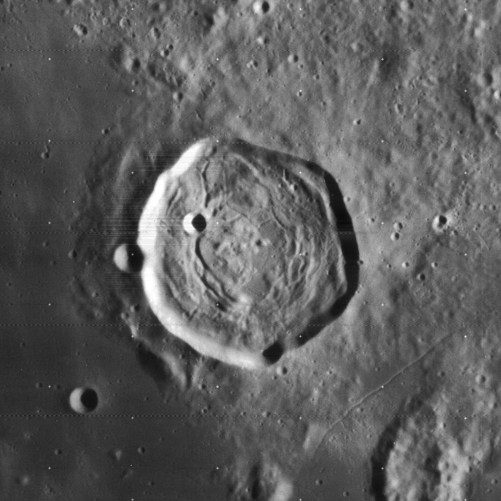 Encke, on the moon.